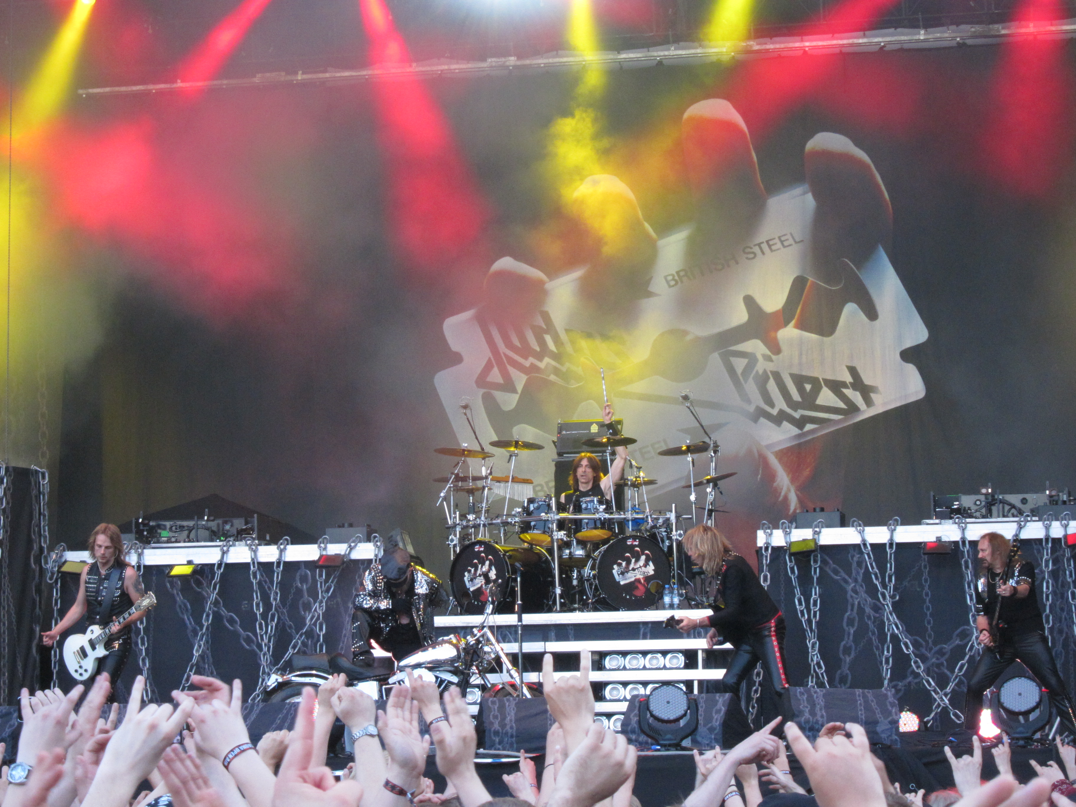 Judas Priest performing at the Sauna Open Air Metal Festival in Tampere, Finland.